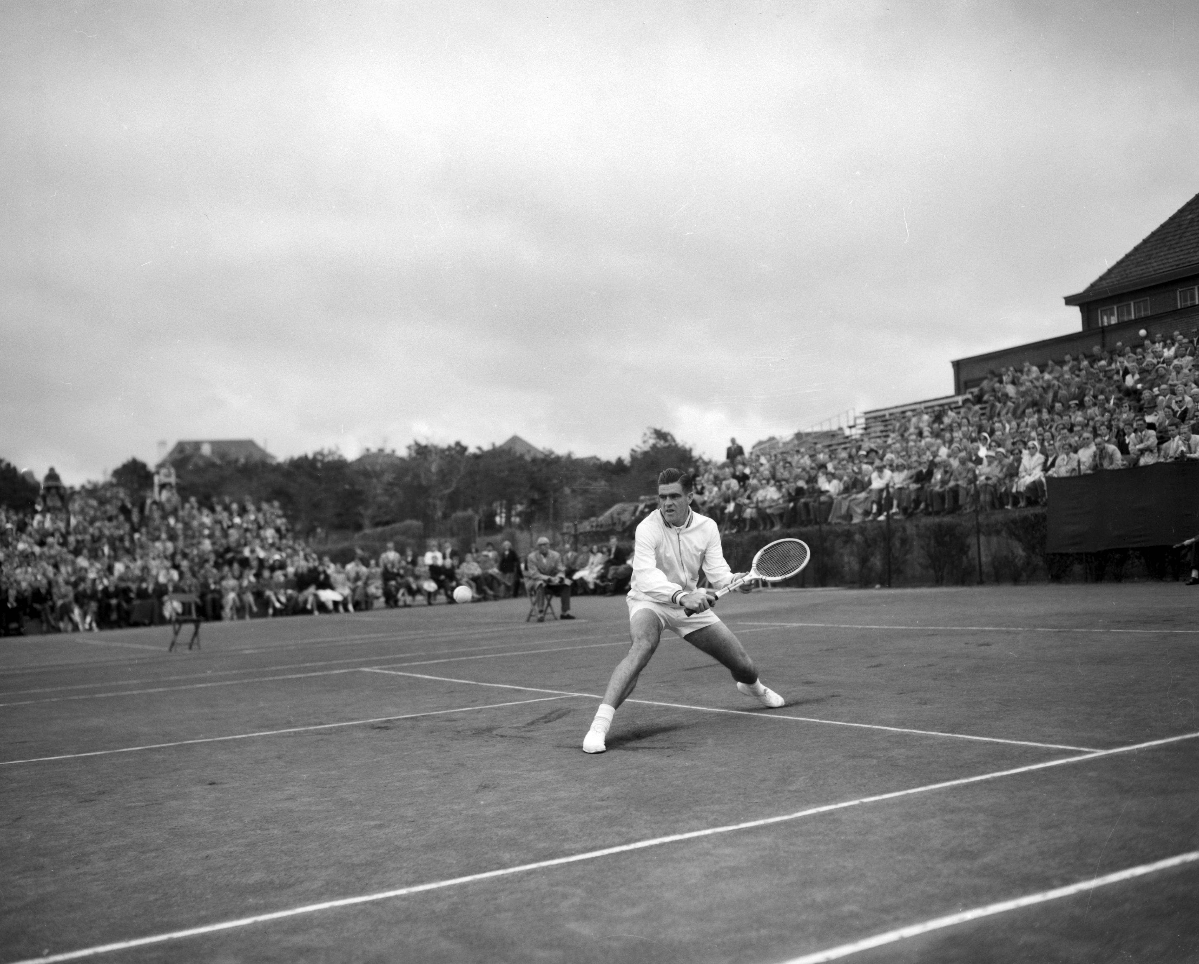 Australian tennis player Robert (Bob) Mark at a tennis exhibition, Casino Noordwijk, in Noordwijk, Netherlands